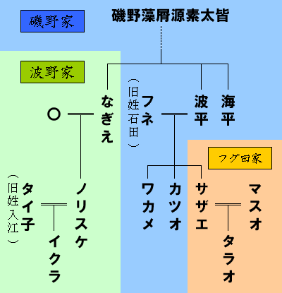 Pedigree chart of Sazae-san